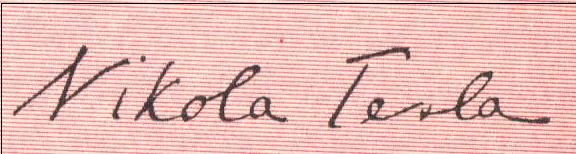 Nikola Tesla's signature